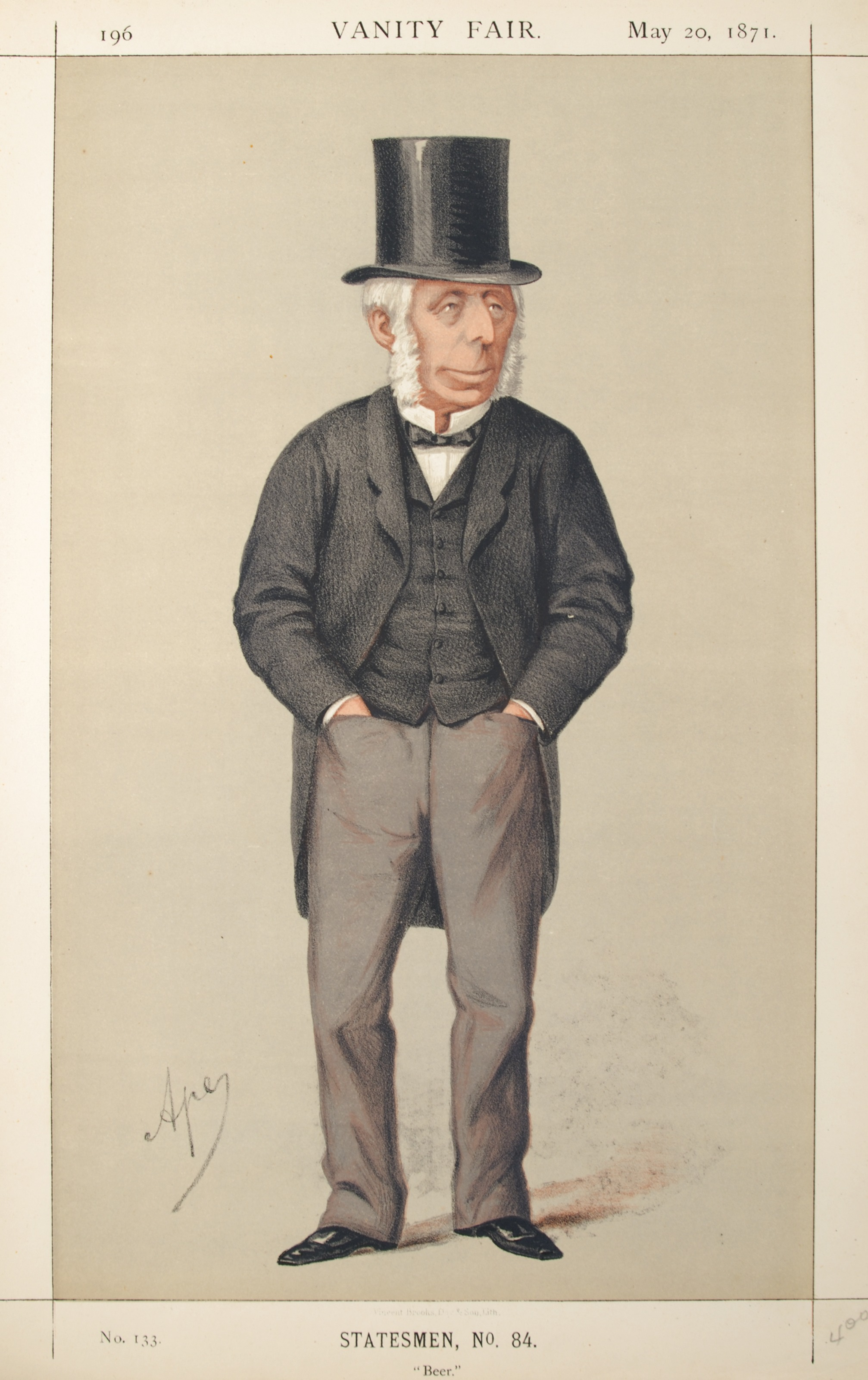 Statesmen No.84: Caricature of Mr MT Bass MP. Caption reads: "Beer."